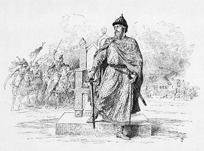 Dmitry Alexandrovich (ca. 1250-1294) was Grand Duke of Vladimir-Suzdal from 1276 until 1281 and then from 1283 until 1293.